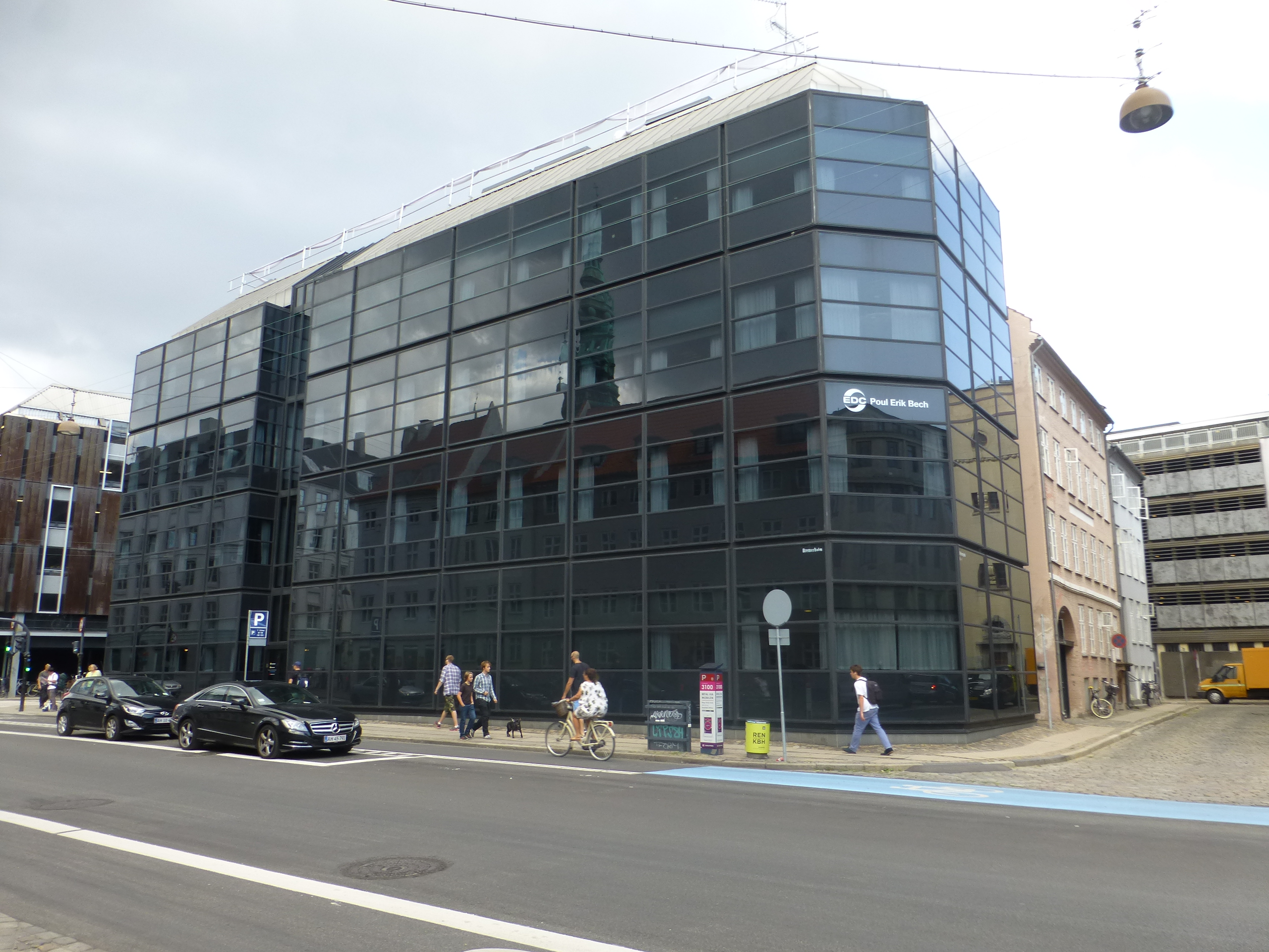 In the street Bremerholm in Indre By in Copenhagen. Where the street is now was former the street Peder Rohdes Gang.